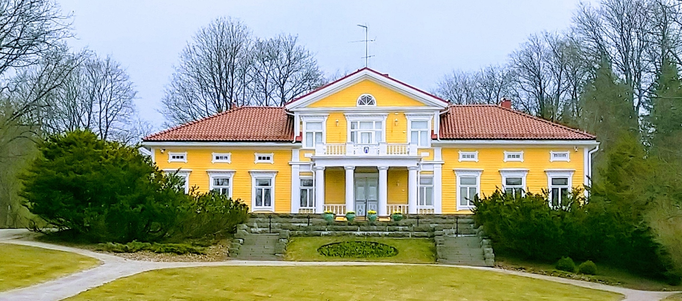 Gumböle manor house, Espoo, Finland. It's the official residence of the Mayor of Espoo.